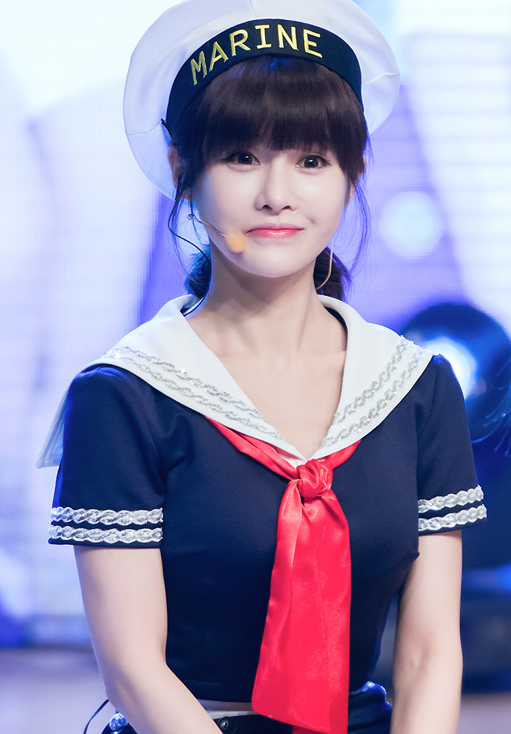 Boram at So Crazy Comeback Showcase on August 3, 2015Tiếng Việt: Boram tại So Crazy Comeback Showcase, ngày 3 tháng 8, 2015